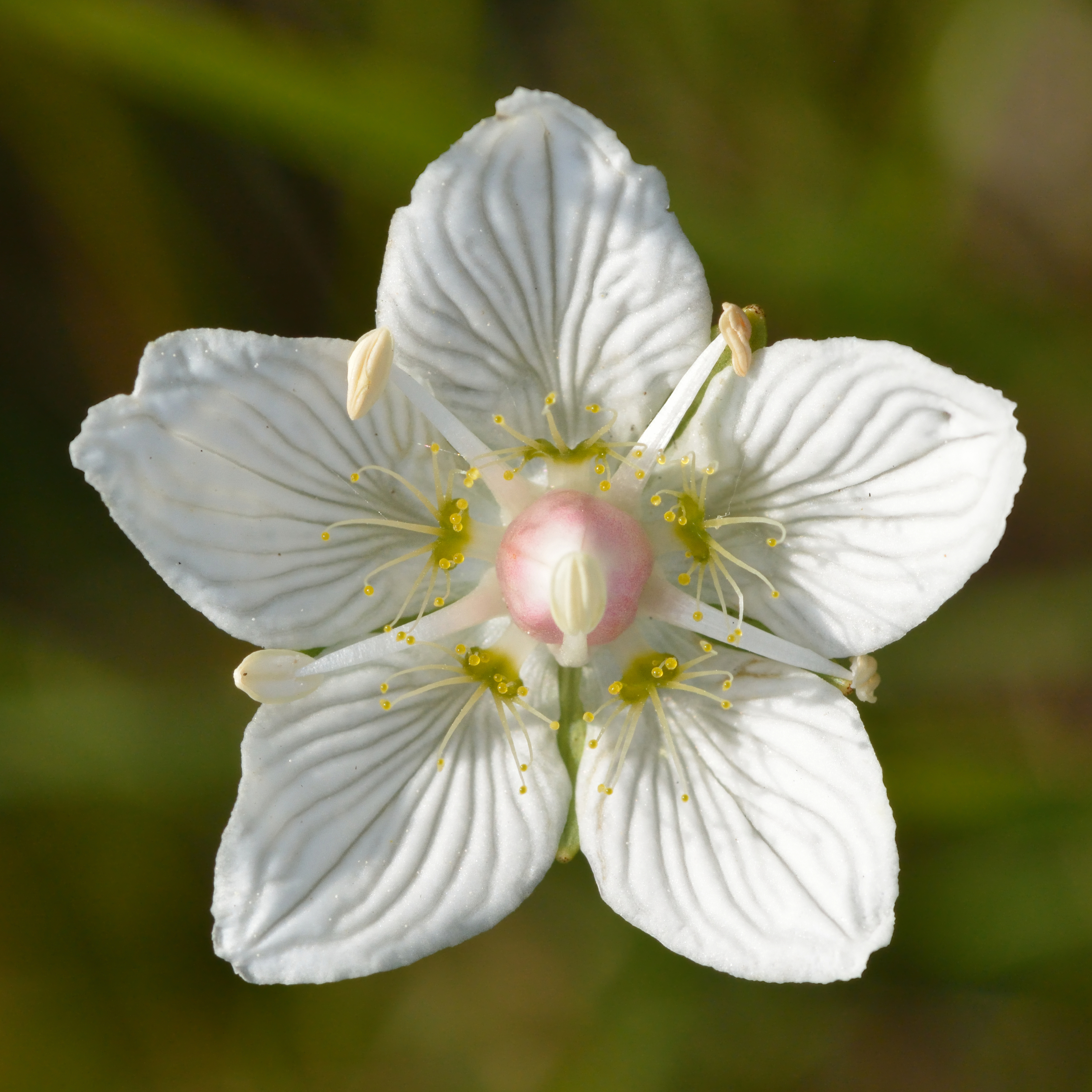 Marsh Grass-of-Parnassus (Parnassia palustris). Niitvälja bog, Northwestern Estonia.